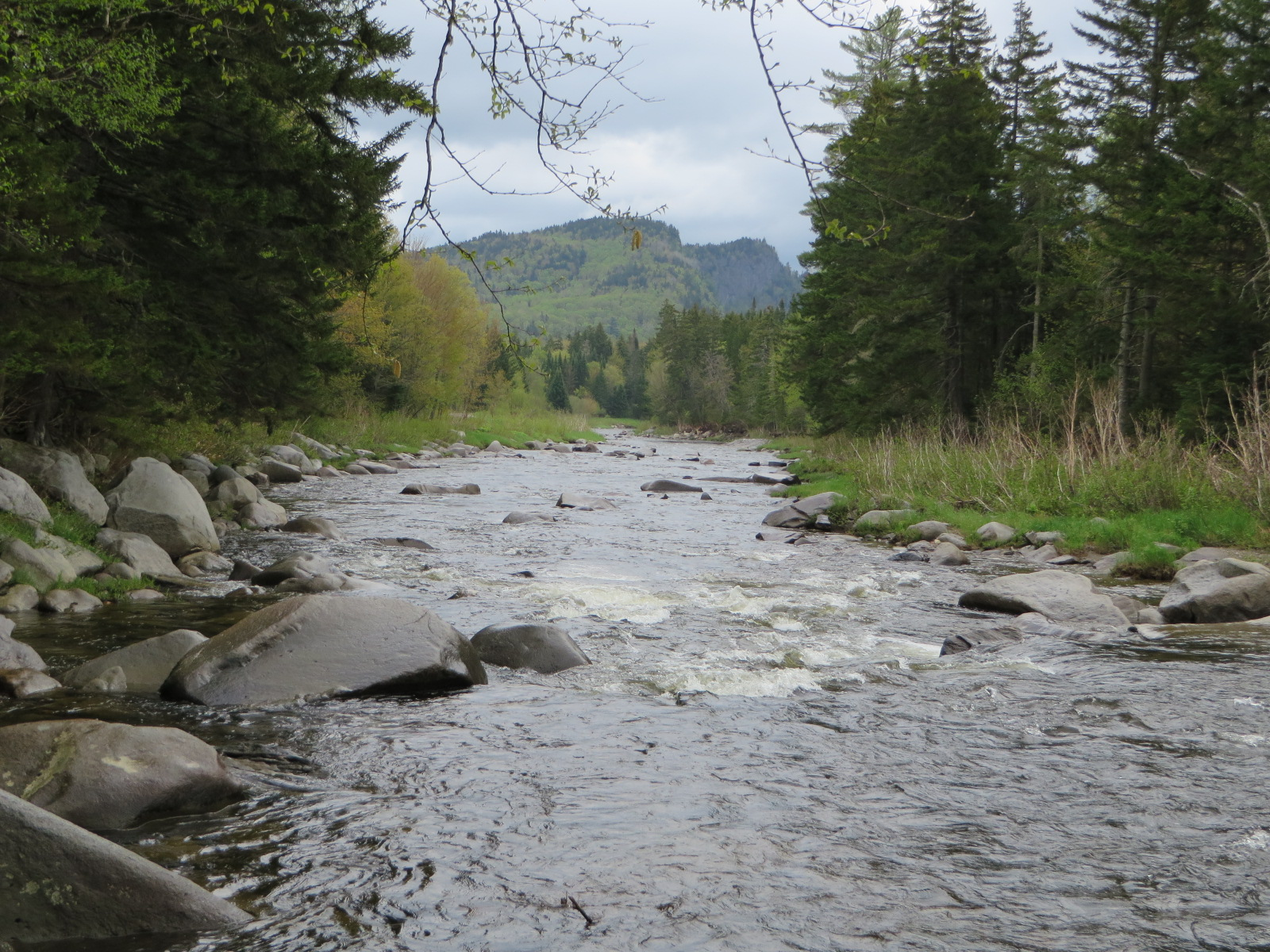 View of the Swift Diamond River in Second College Grant, May 2014.